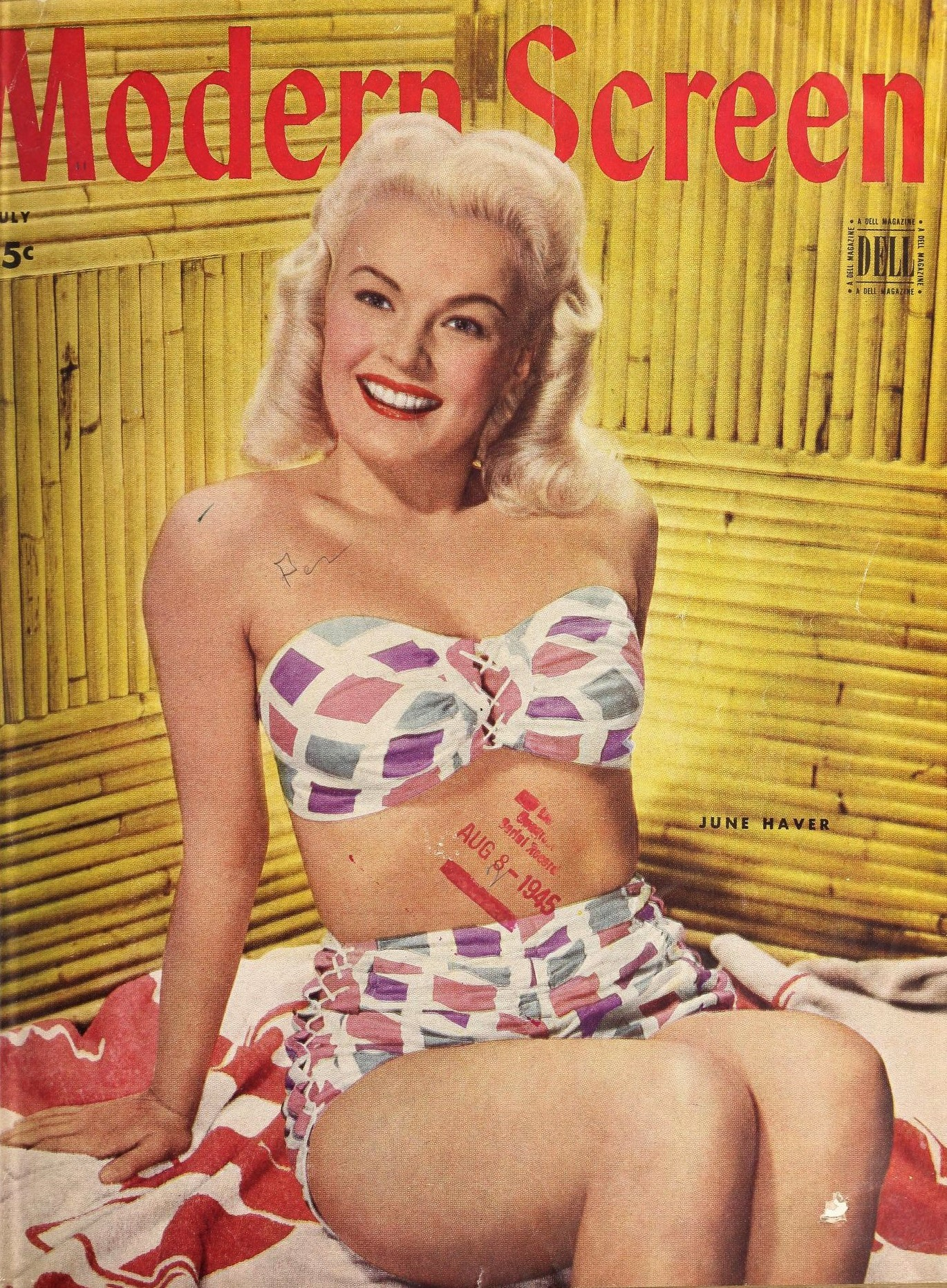 June Haver on Modern Screen cover, July 1945